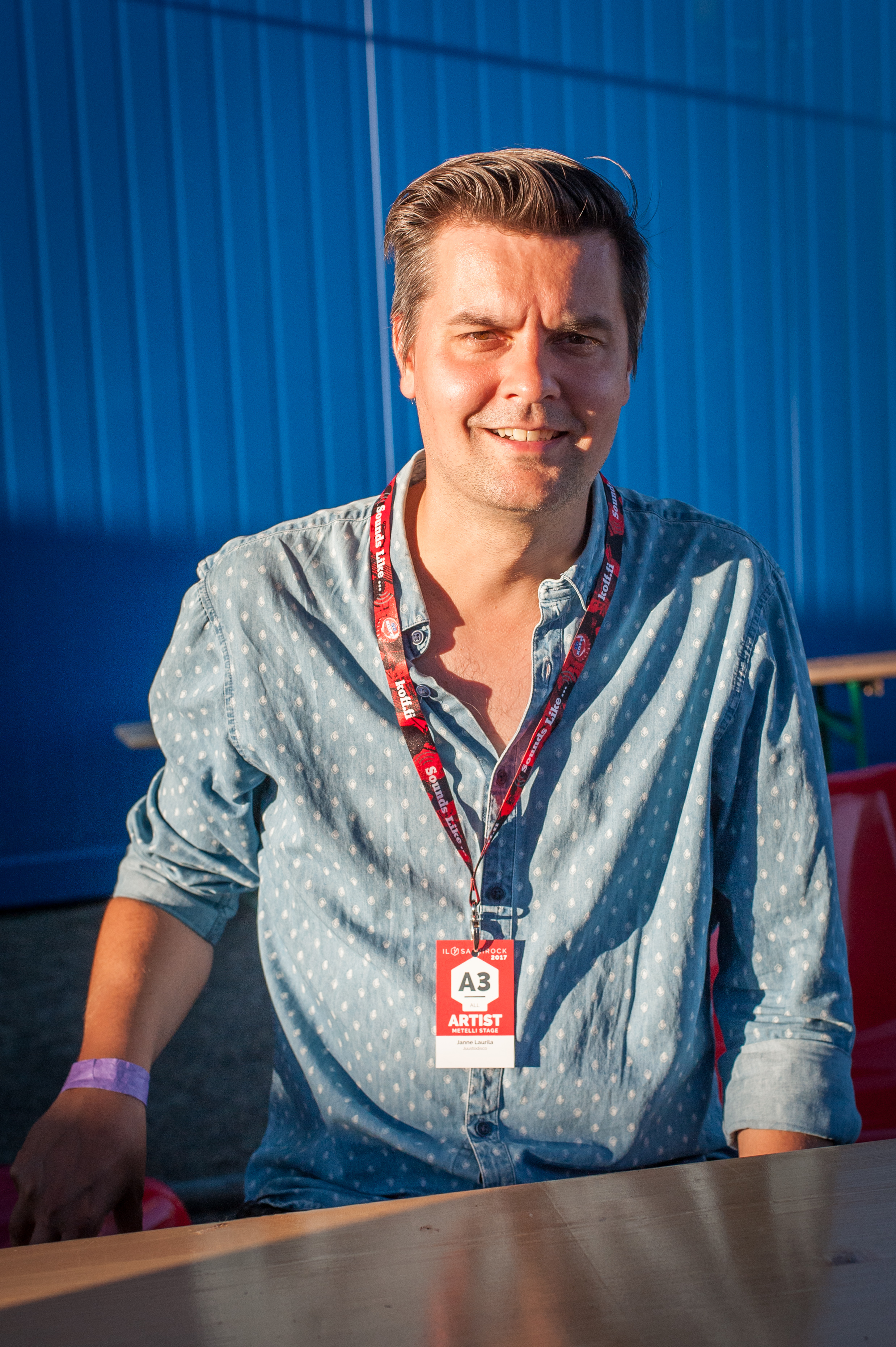 Finnish musician Janne Laurila at the Ilosaarirock festival in Joensuu, Finland.